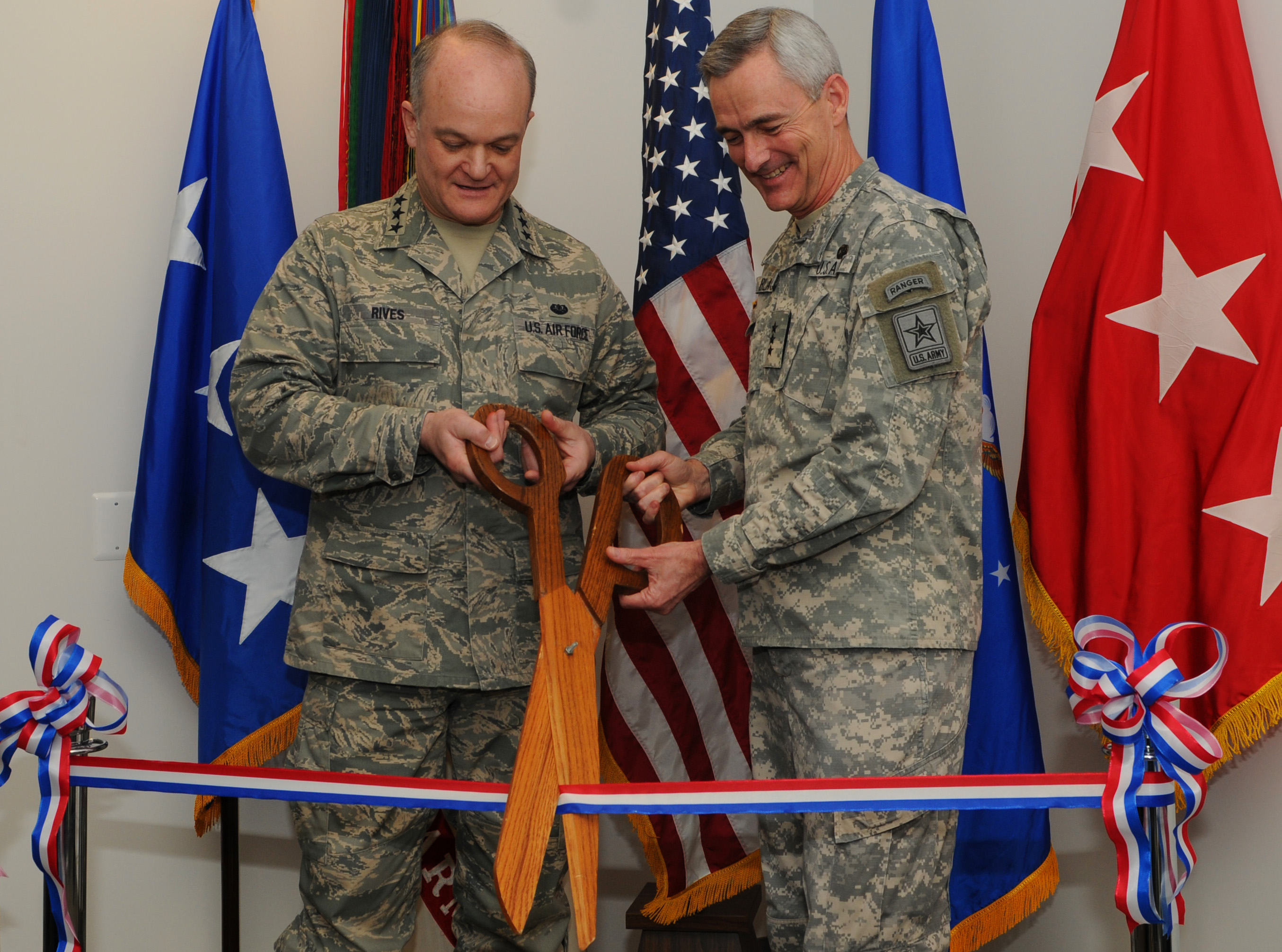 Lt. Gen. Jack L. Rives and Lt. Gen. Scott C. Black perform the ribbon cutting at the Pentagon Army Air Force Legal Assistance Office Feb. 25. The PAAFLAO offers legal assistance to active duty Army and Air Force personnel and their families, retirees and their families and certain National Guard and Reserve servicemembers. (U.S. Air Force photo by Thomas Dennis)